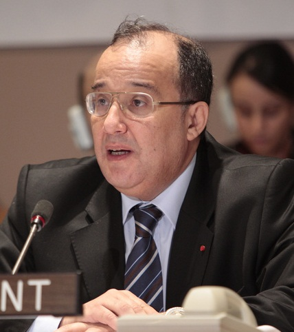 24 September 2009 - New York Foreign Minister of Morocco Taib Fassi Fihri addressing the Conference on Facilitating the Entry Into Force of the Comprehensive Nuclear-Test-Ban Treaty. CTBTO Photo/ Sophie Paris Copyright CTBTO Preparatory Commission